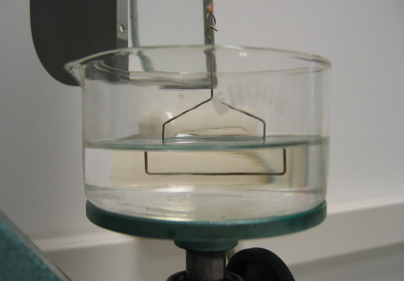 Measurement of surface tension.